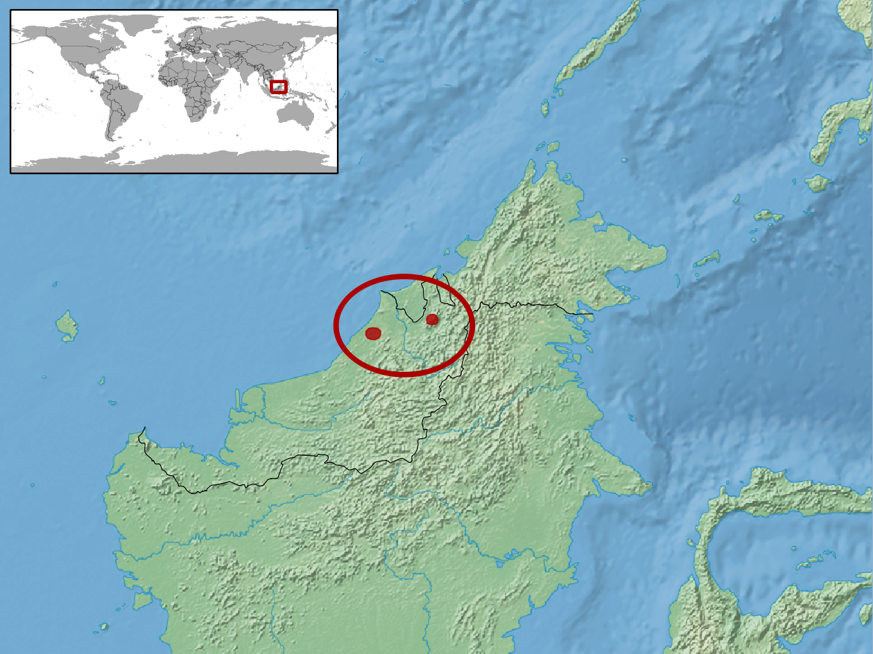 geographic distribution of Cyrtodactylus cavernicolus (Native: Malaysia (Sarawak))